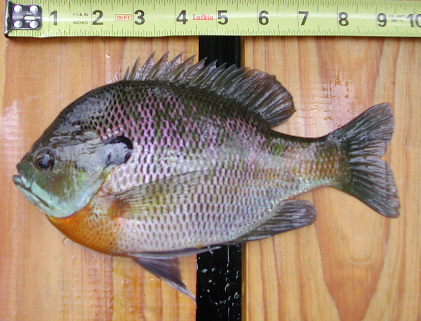 Bluegill from Lake Lanier, Landrum, South Carolina.